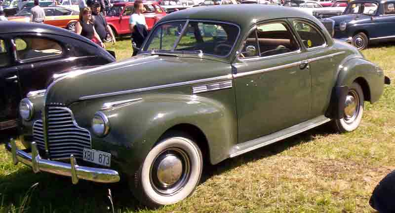 1940 Buick Super Series 50 Model 56S Sport Coupe